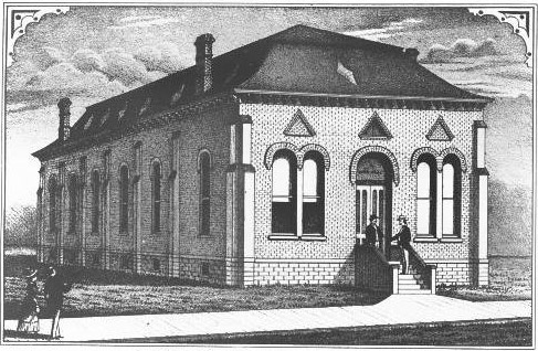 Elk Rapids Town Hall, 1884 nrhp#77000709